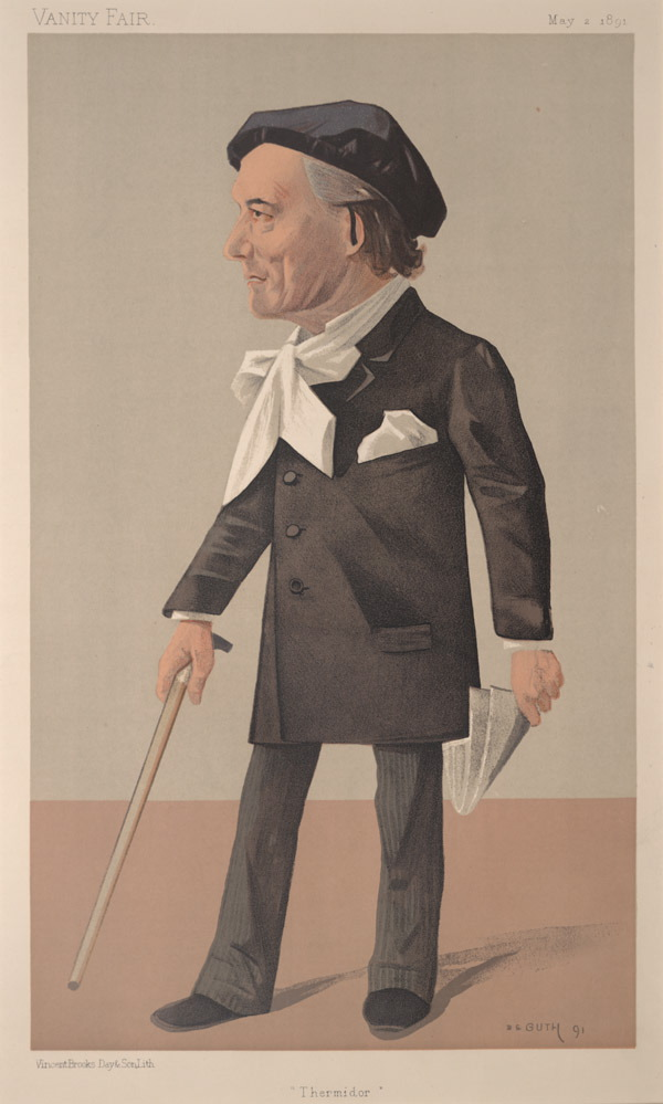 Men of the Day No.506: Caricature of M V Sardou. Caption reads: "Thermidor"